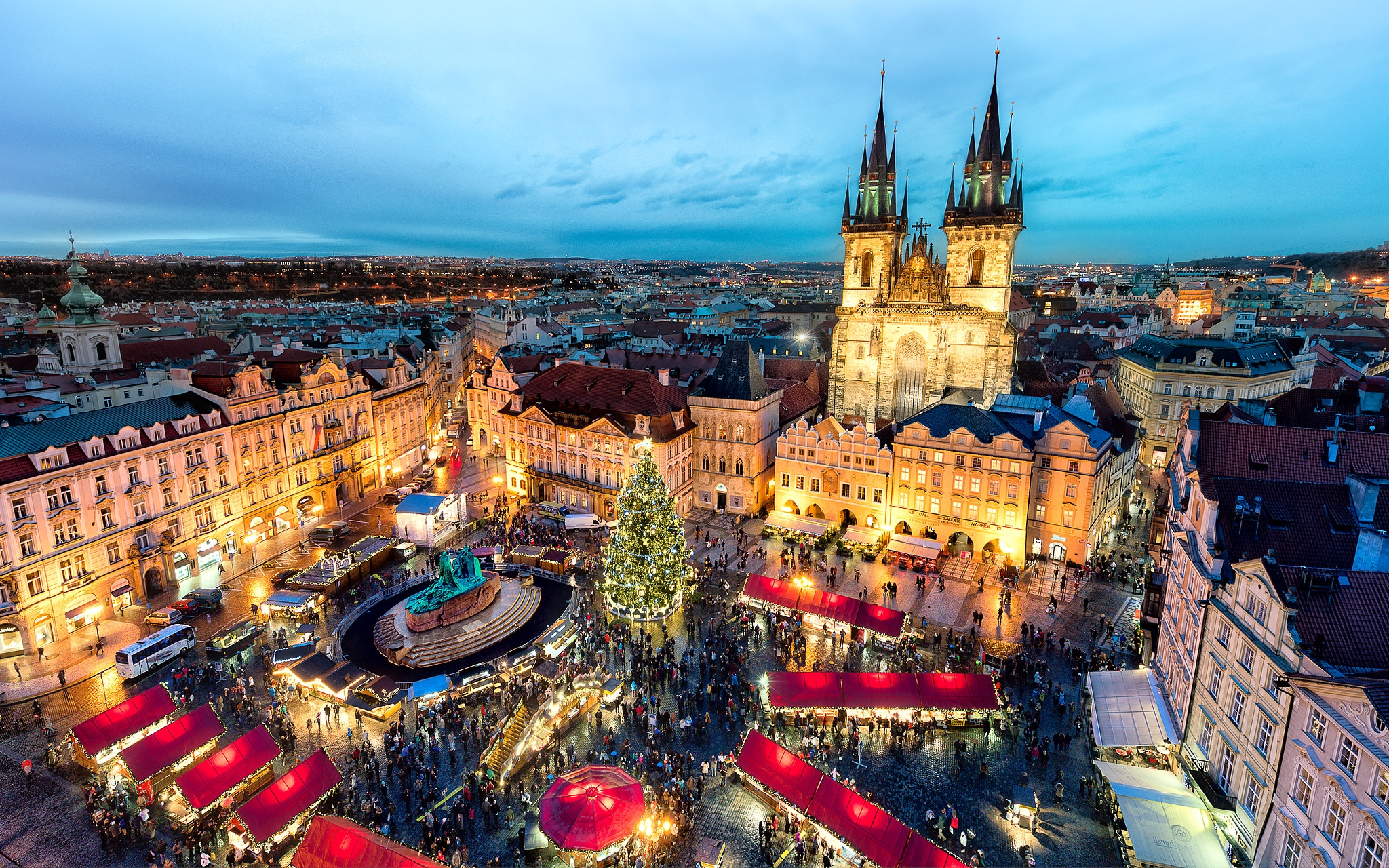 500px provided description: Beautiful old city square in the heart of Prague. With Christmas approaching there's plenty of markets, decorations and people gathering around drinking mulled wine. [#yellow ,#city ,#sunset ,#people ,#street ,#night ,#clouds ,#old ,#urban ,#architecture ,#christmas ,#cityscape ,#lights ,#building ,#gold ,#market ,#square ,#statue ,#aerial ,#brick ,#town ,#prague ,#blue hour ,#christmas tree ,#rooftop]